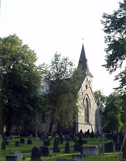 Snåsa church, Norway